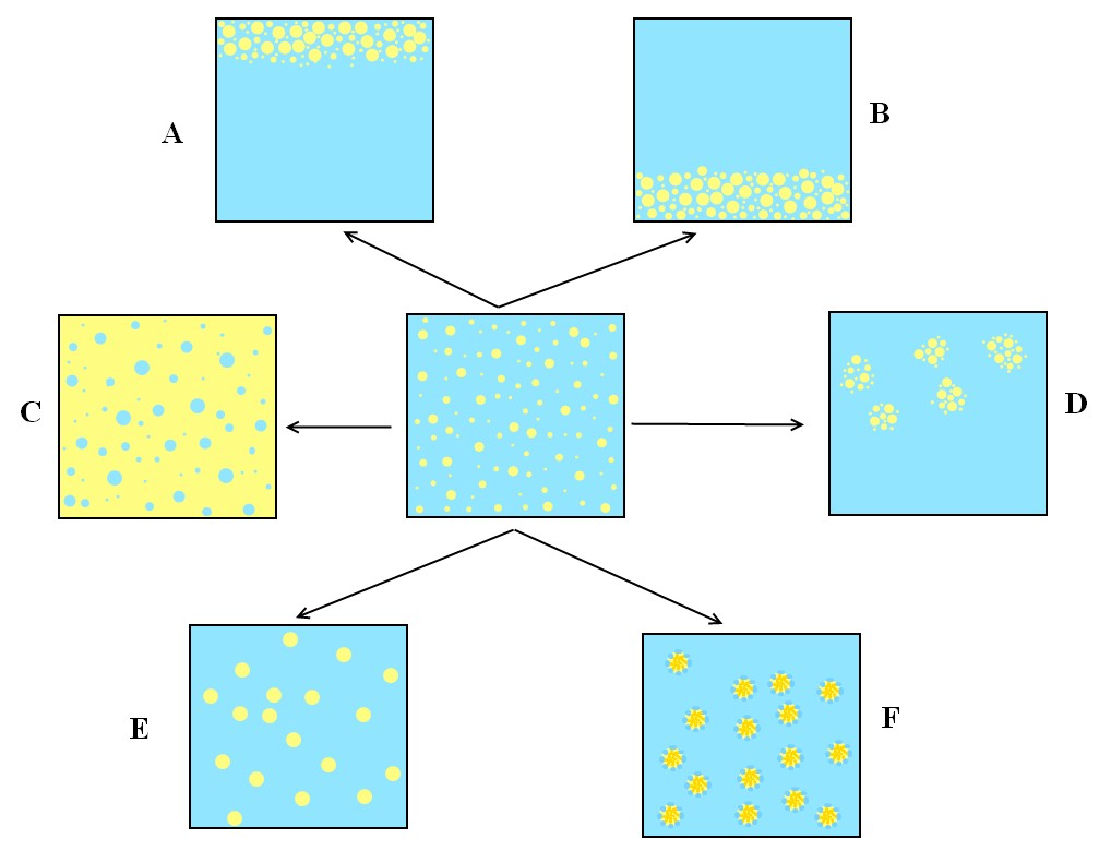 Processes of emulsion destabilzation: A) creaming B) sedimentation C)phase inversion d) floculation E) Coalescence F) Ostwald maturing